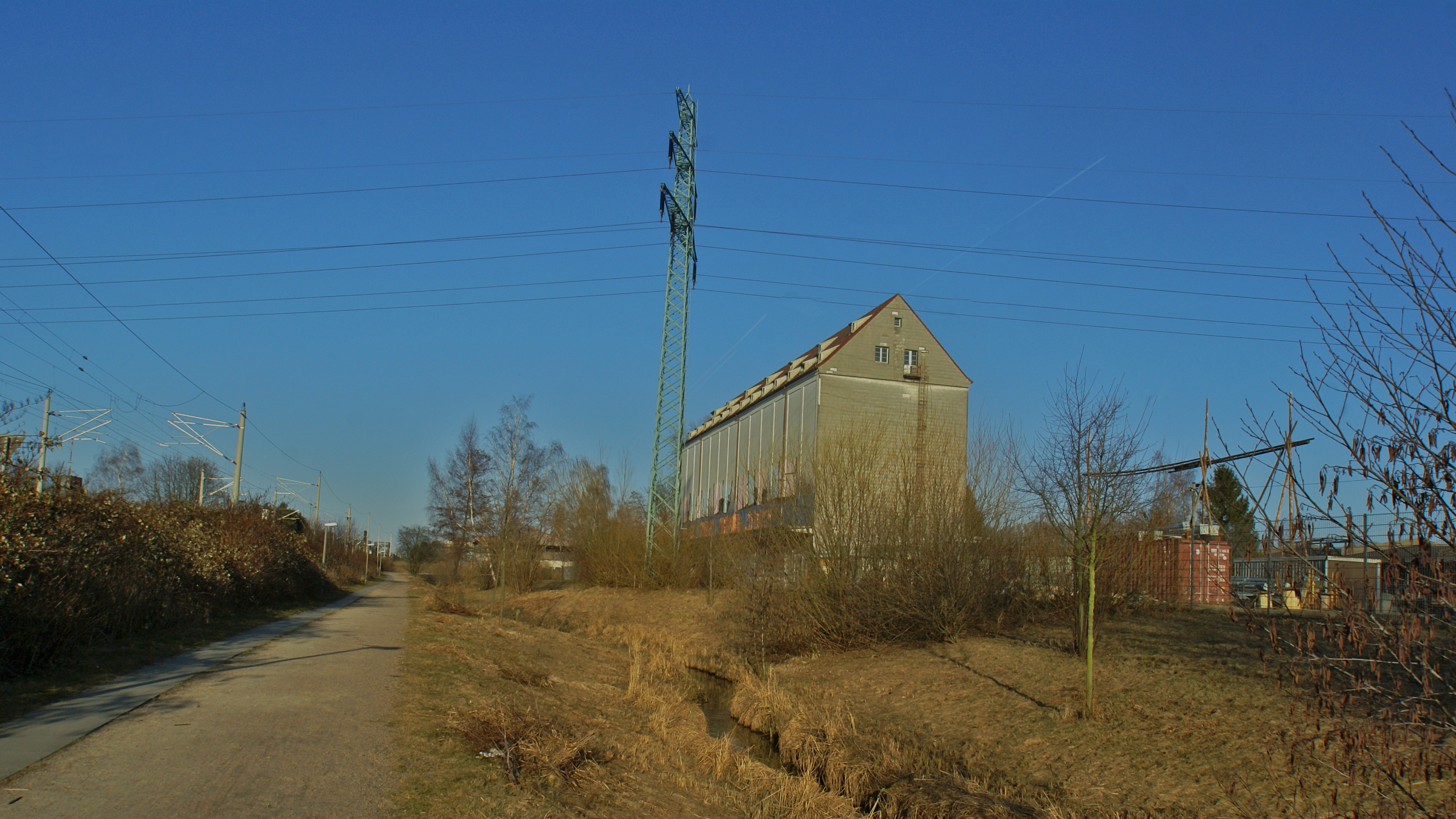 Hamburg (Tonndorf), Germany: The Rahlau River close to the Doraustieg